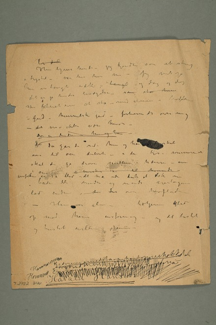 Part two (verso) of undated note or 'prose poetry' by the norwegian painter Edvard Munch (1863-1944) on 'melancholia' – Writing paper, 237×194 mm The text in norwegian: Part one: File:Munch_Note_on_Melancholia_Part_one_No-MM_N0664-00-01r.jpg